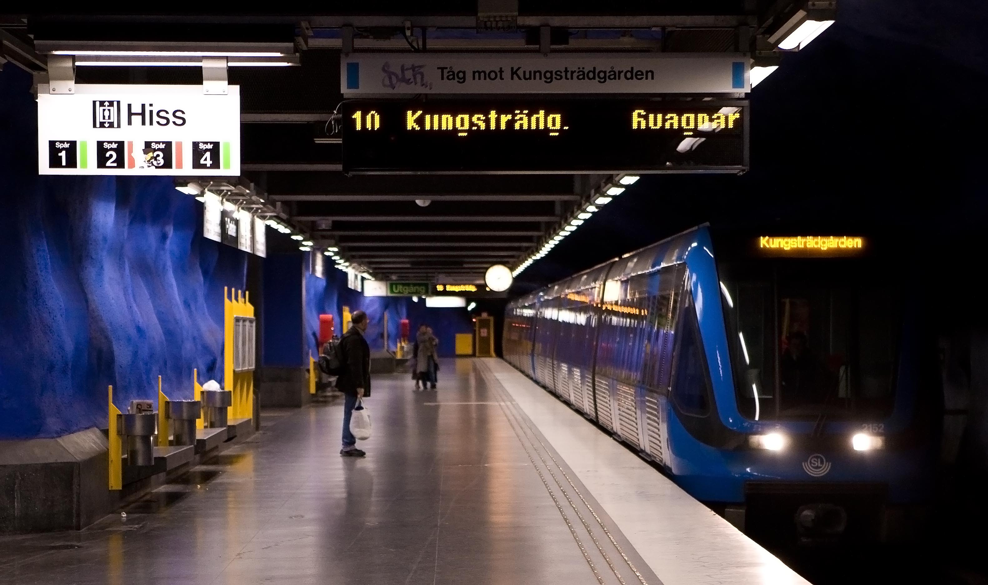 Train at T-Centralen station on the blue line of the Stockholm Metro.